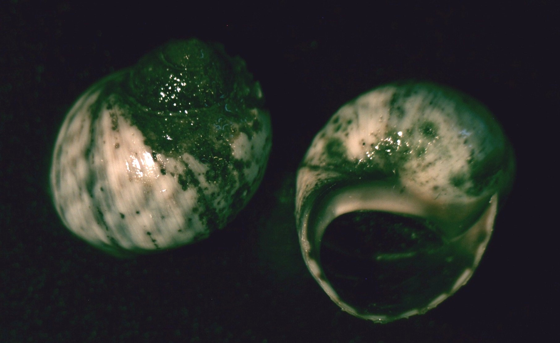 Afrolittorina praetermissa (May, 1909), a periwinkle from the family Littorinidae; South Australia